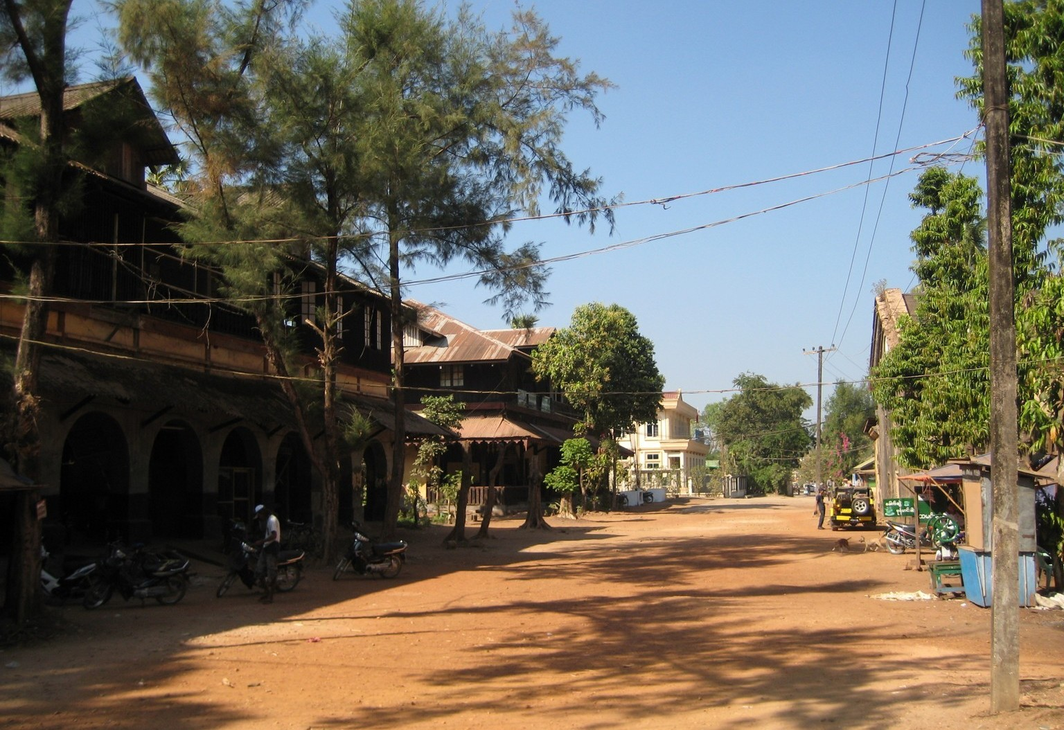 Pathein and Irrawaddy Delta scenery